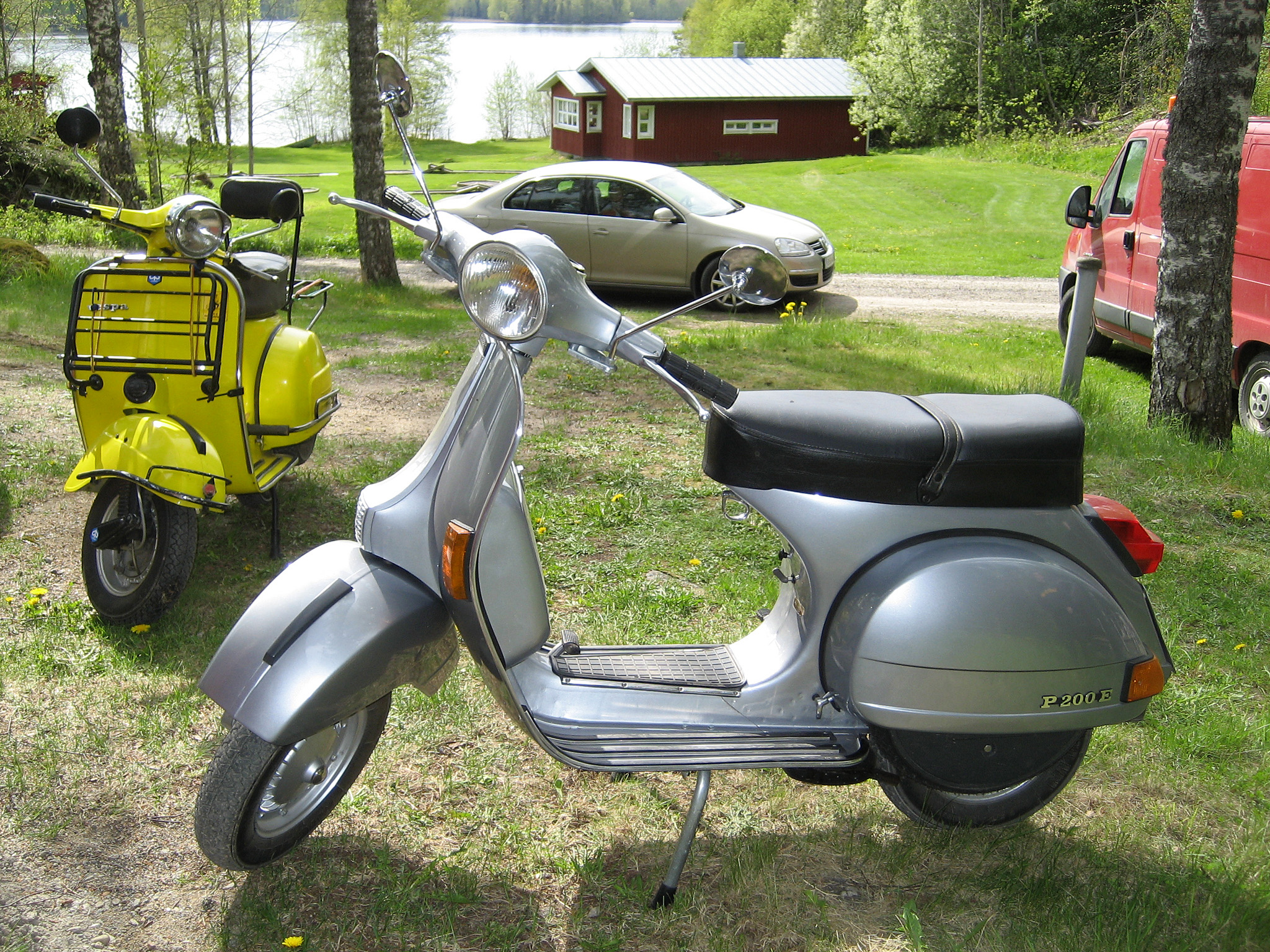 Piaggio's Nuova Linea (P Series) was introduced in 1977 and discontinued in 2007. This model is P 200 E (1981). On the left background - Vespa Rally 200.